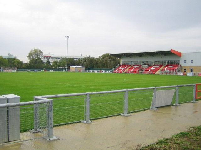 Harlow: Barrows Farm Stadium This is the new home of Harlow Town F.C., capable of holding attendances of up to 4,000, with 400 seated and 500 standing under cover. The club, known as the Hawks, played their first senior game at the stadium on 18 October 2006 beating Ware 2-0 in a Ryman Football League Division One North fixture.